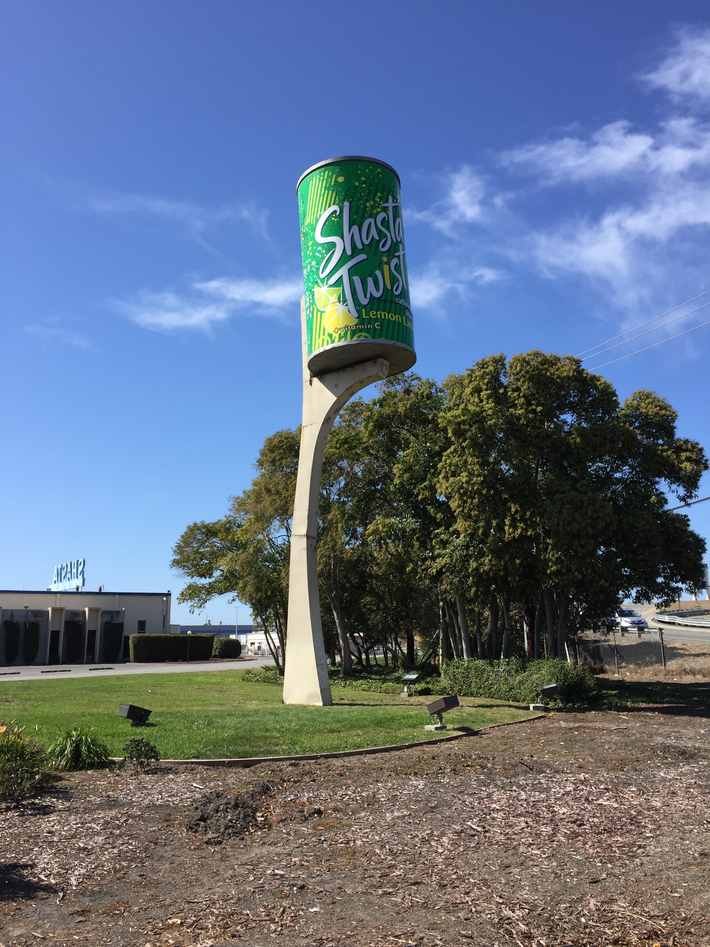 Shasta Twist soda can marker at the Shasta headquarters in Hayward, California.